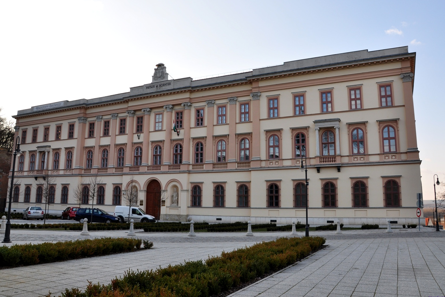 Seminar Esztergom This is a photo of a monument in Hungary, Identifier: 6241